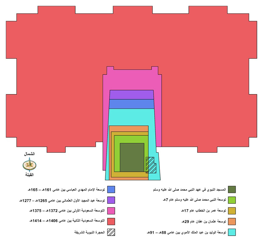 Al-Masjid Al-Nabawi Drawing